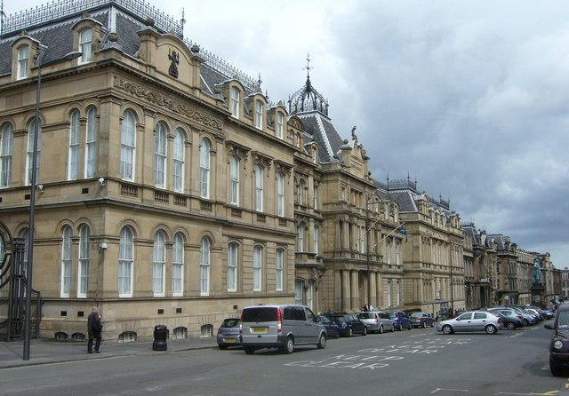 Chambers Street, Edinburgh. Chambers Street came about as one of the major street-planning improvements carried out in the wake of M.O.H. Henry Littlejohn's report of 1855 on sanitary conditions in the Old Town of Edinburgh. Littlejohn urged extensive slum clearance for the sake of public health which was eventually put into effect by the City Improvement Acts of 1867 and 1871. The 70-foot-wide, 1,000-foot-long street, replaced a narrow, squalid thoroughfare running alongside Old College from Adam Square at the eastern end through Argyle Square to Brown Square at the western end. These squares (along with George Square) represented the first major, southwards expansion of the town beyond its traditional boundaries before the New Town was built to the north. All three squares were demolished. The new street was named after Lord Provost William Chambers who was Littlejohn's foremost supporter in pushing for improvements. 1338463